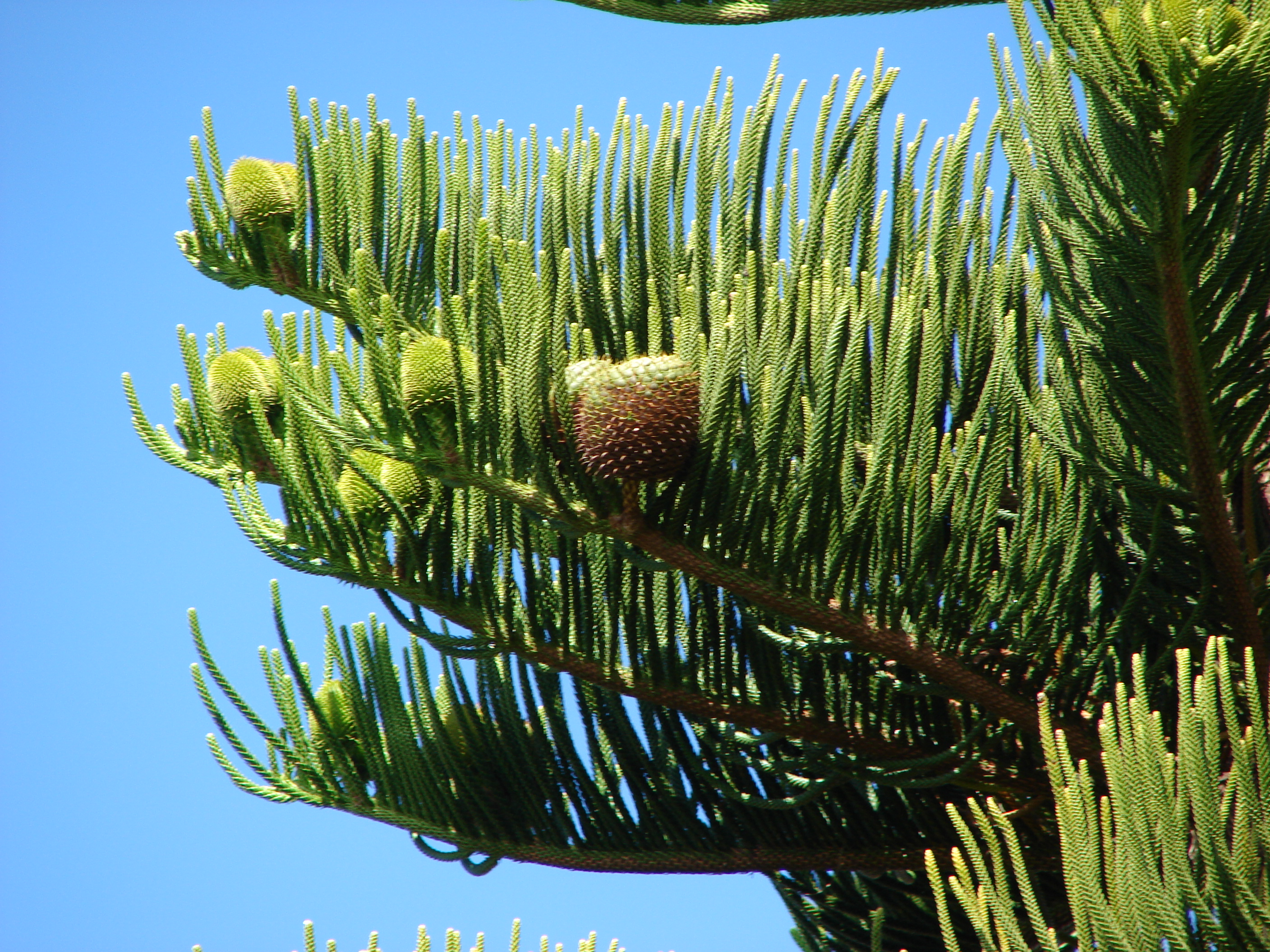 Araucaria columnaris (fruit). Location: Maui, Eddie Tam Makawao